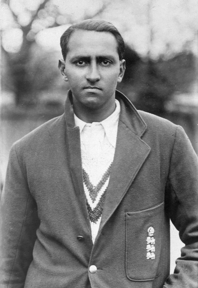 Cricket, 1920's, A picture of KS (Kumar Shri) Duleepsinhji, the legendary Cambridge University, Sussex and England right-handed batsman and superb slip fielder